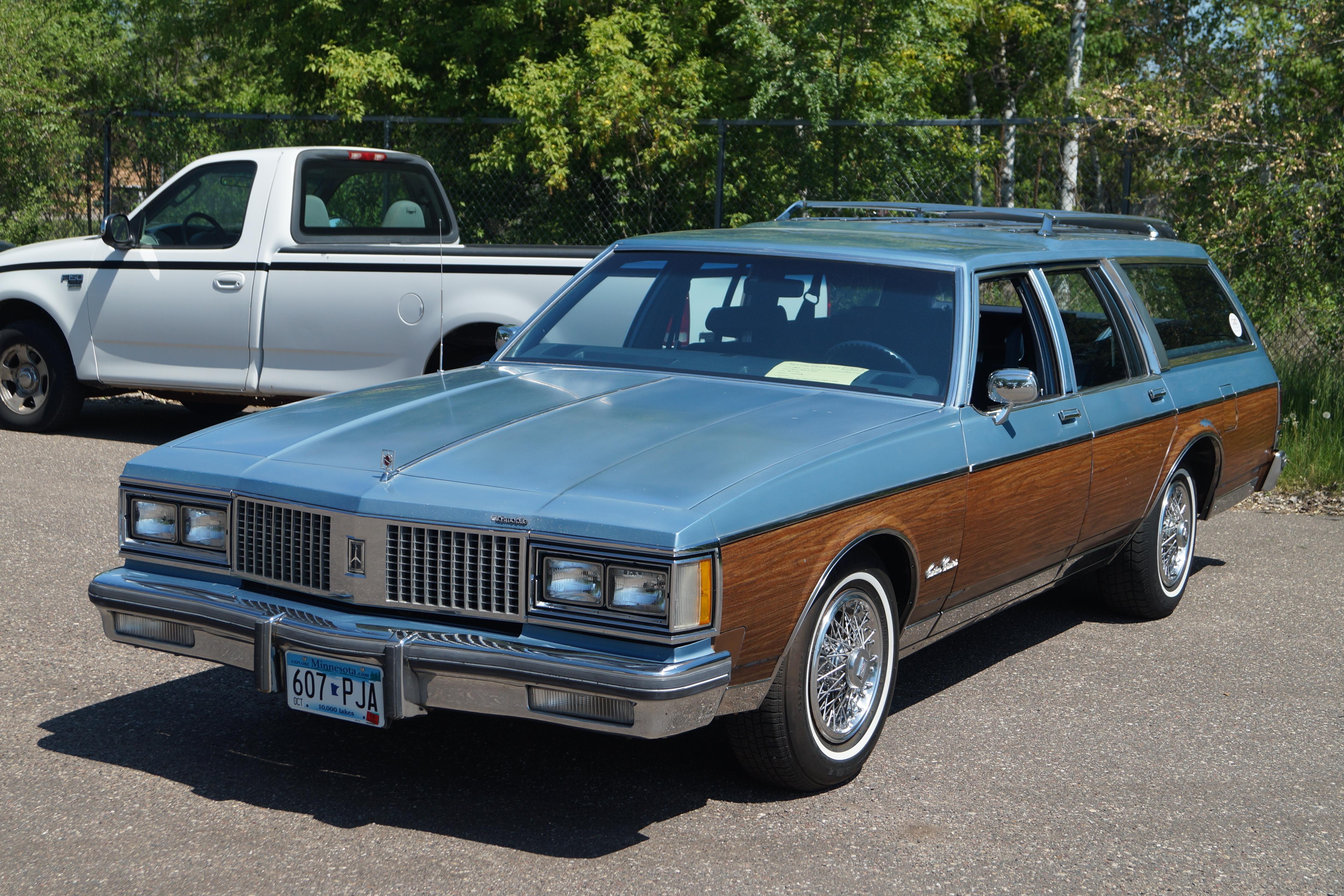 Click here for more car pictures at my Flickr site. Oldsmobile Club of America Minnesota Chapter 4th Annual Spring Dust Off Car Show & Swap Meet Unique Classics on 65 Ham Lake, Minnesota